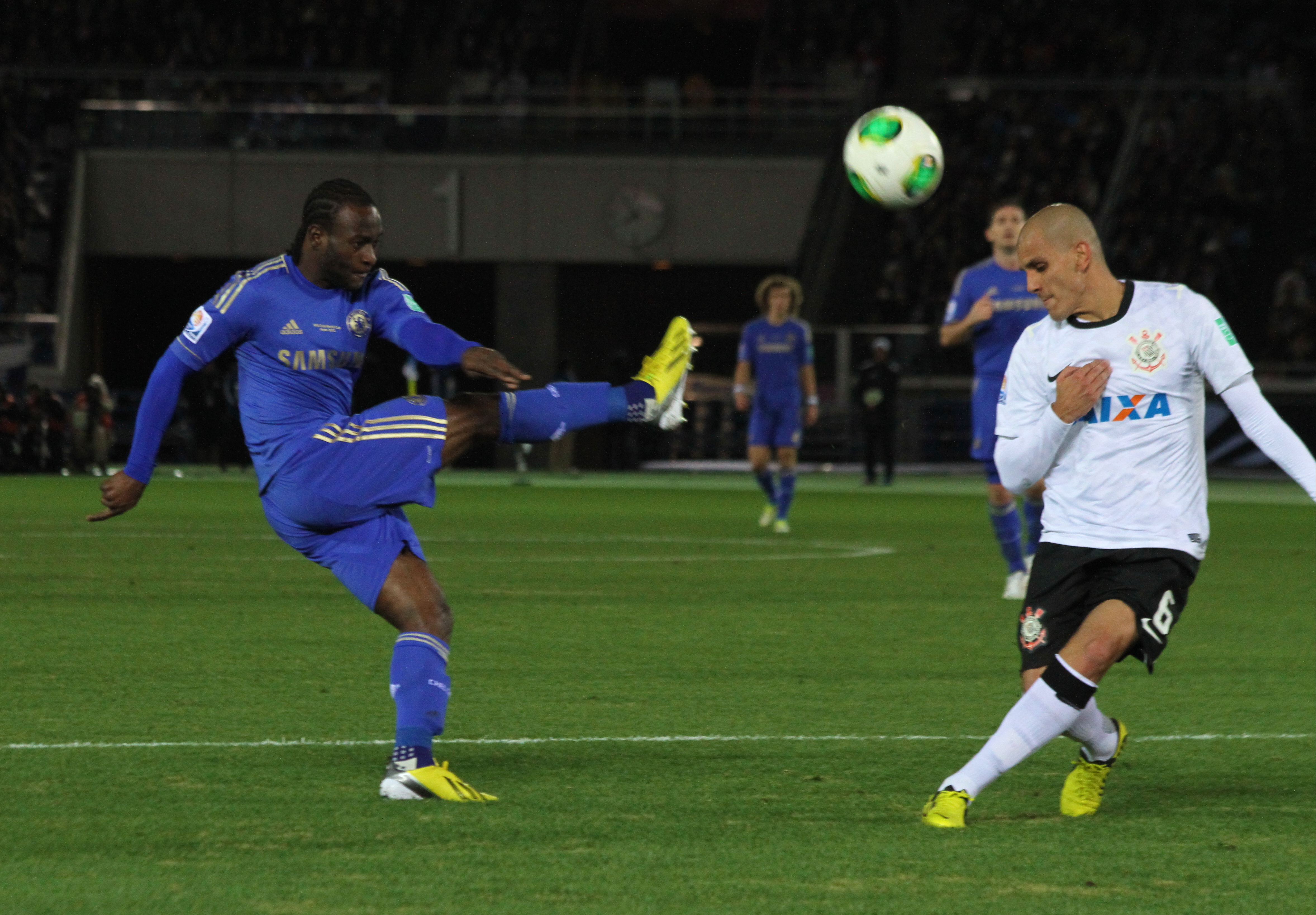 Victor Moses of Chelsea defended by Fábio Santos of Corinthians